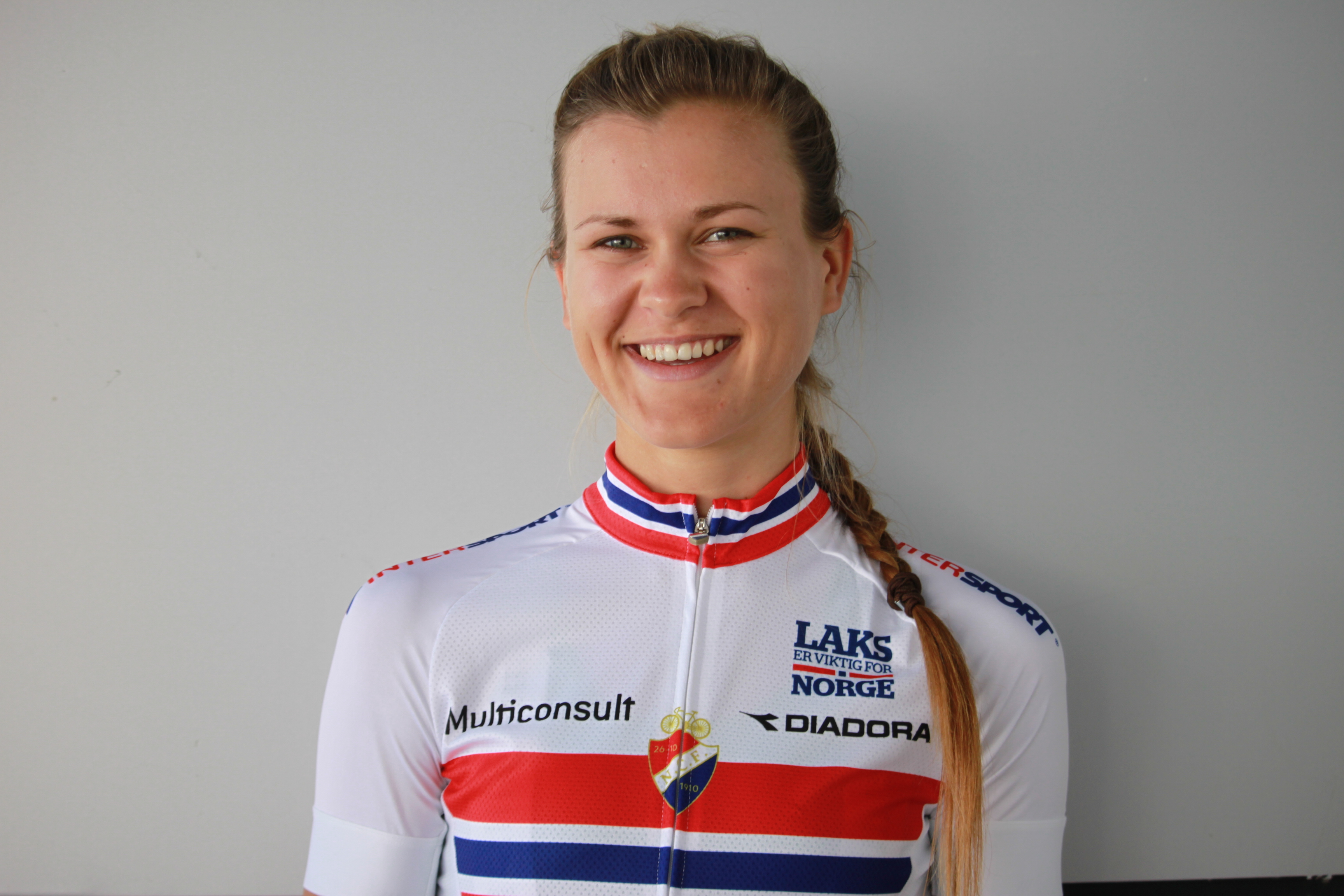 Norwegian cyclist Katrine Aalerud at the 2016 UCI Road World Championships